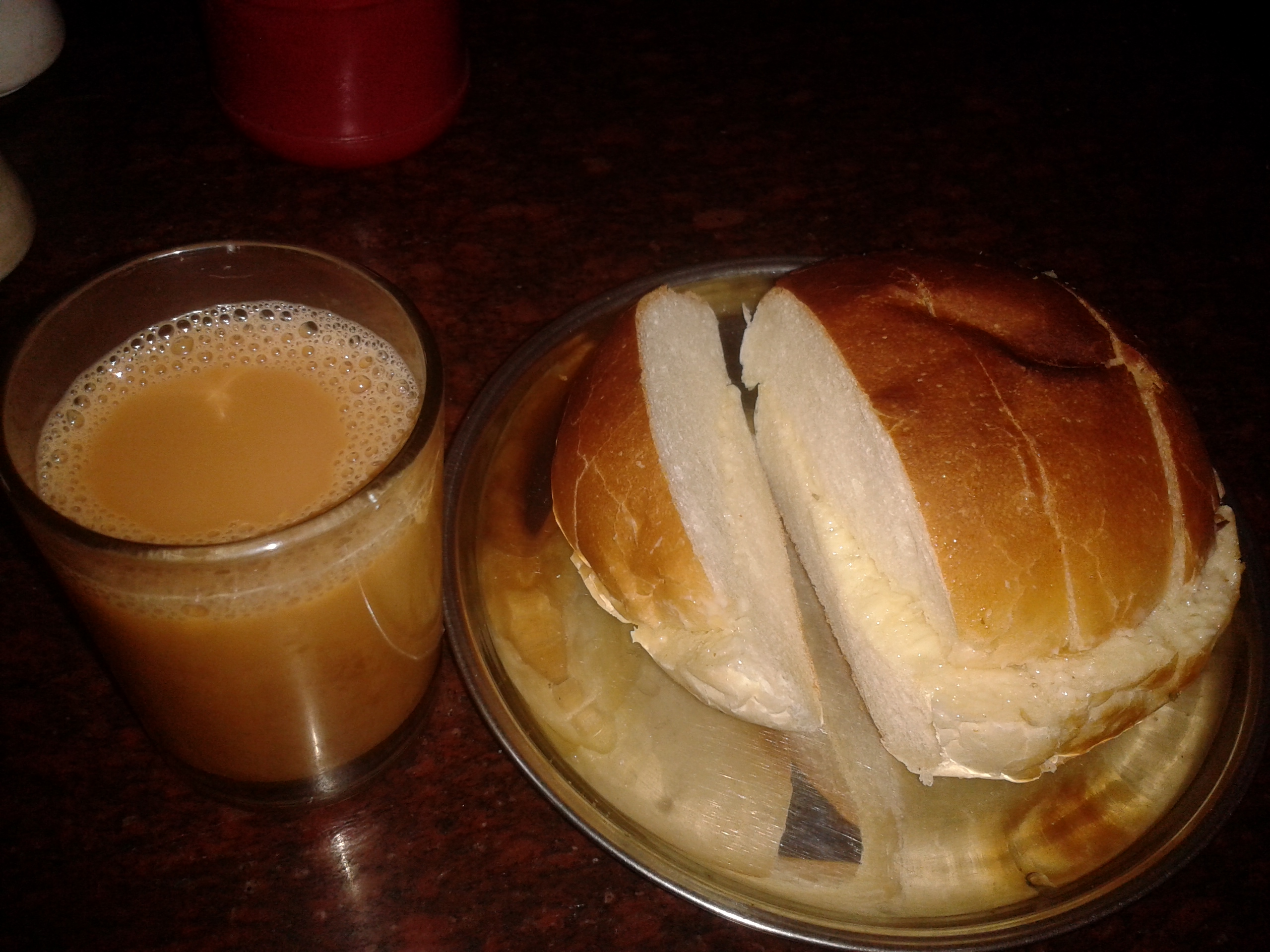 'Irani Bun Maska Pav Chai' Bun with Butter & Tea is one of the most popular breakfast food one could find in Pune at few Irani Joints in Pune.